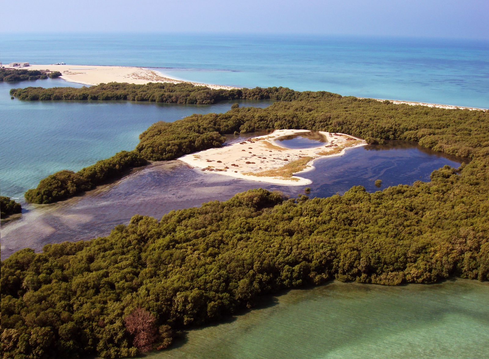 An aerial photo of the Bu Tinah island off the western coastline of Abu Dhabi, a unique wonder of nature, wild and undisturbed by human activity.